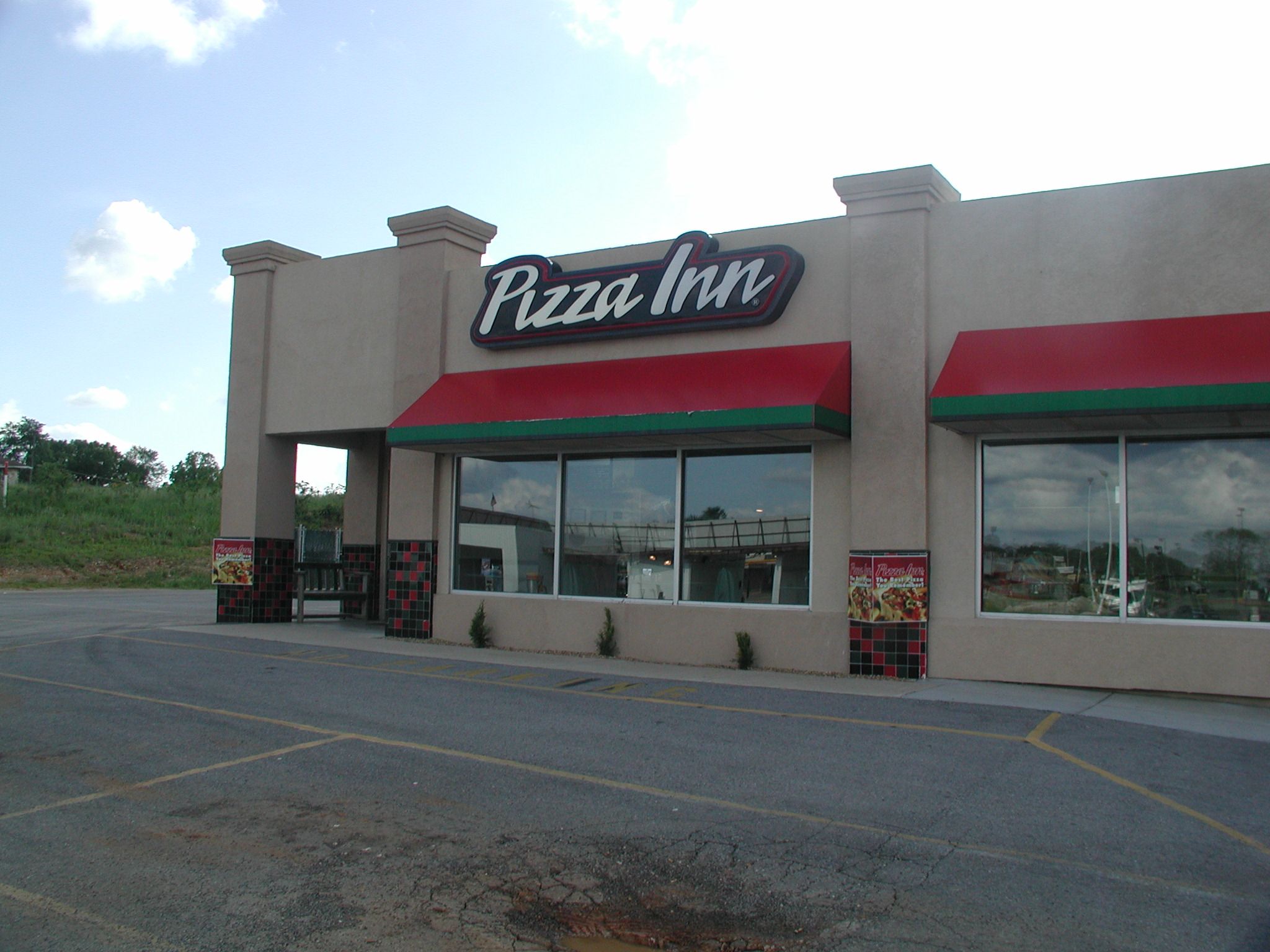 Pizza Inn in Poplar Bluff, Missouri. Photo taken by Ichabod, May 2003.